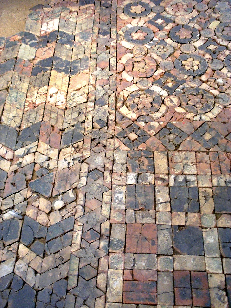 14th-century tiled floors excavated from Warden Abbey, Bedfordshire. On display at Bedford Museum.